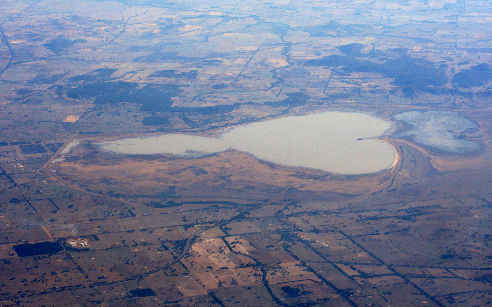 Lake Mokoan from the east